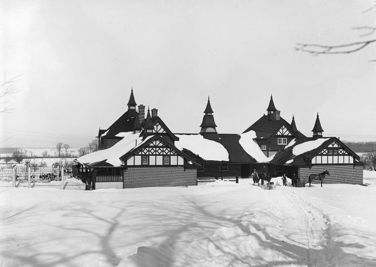 Photograph, Kennels, Montreal Hunt Club, Cote St. Catherine Road, Montreal, QC, 1898, Wm. Notman & Son, Silver salts on glass - Gelatin dry plate process - 20 x 25 cm Purchase from Associated Screen News Ltd.